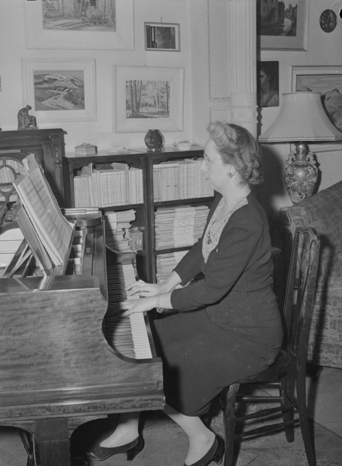 Marie-Thérèse Paquin played on a grand piano in his home in the Avenue de Lorimier in Montreal.